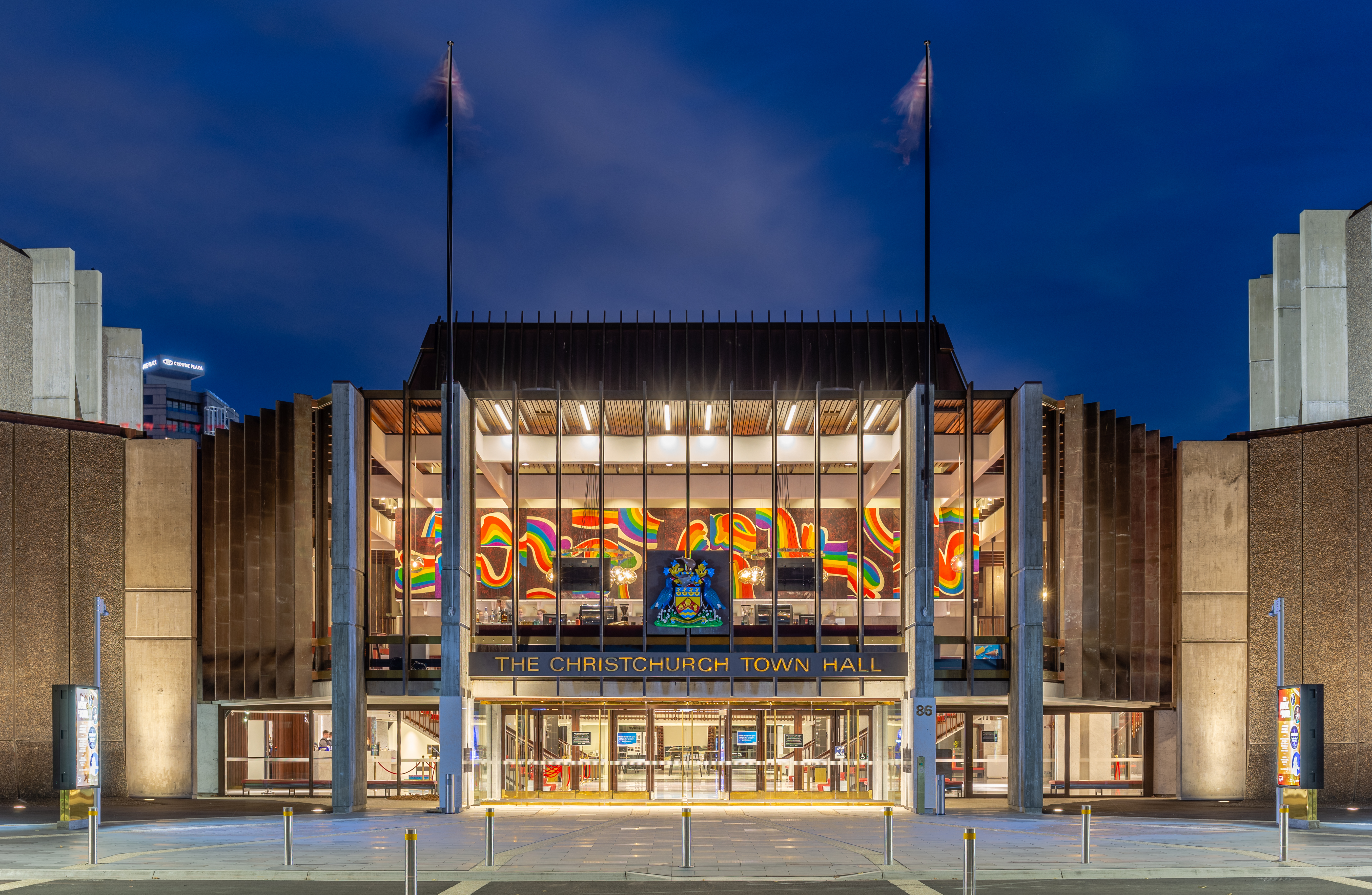 Christchurch Town Hall of the Performing Arts during the blue hour, Christchurch, New Zealand